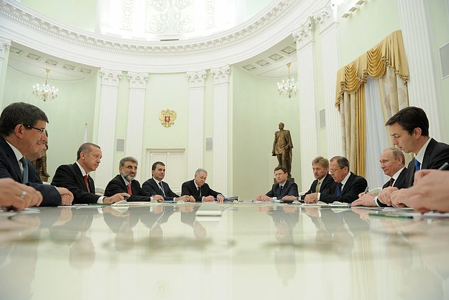 Meeting between Prime Minister of Turkey Recep Tayyip Erdogan and President of Russia Vladimir Putin in Moscow.